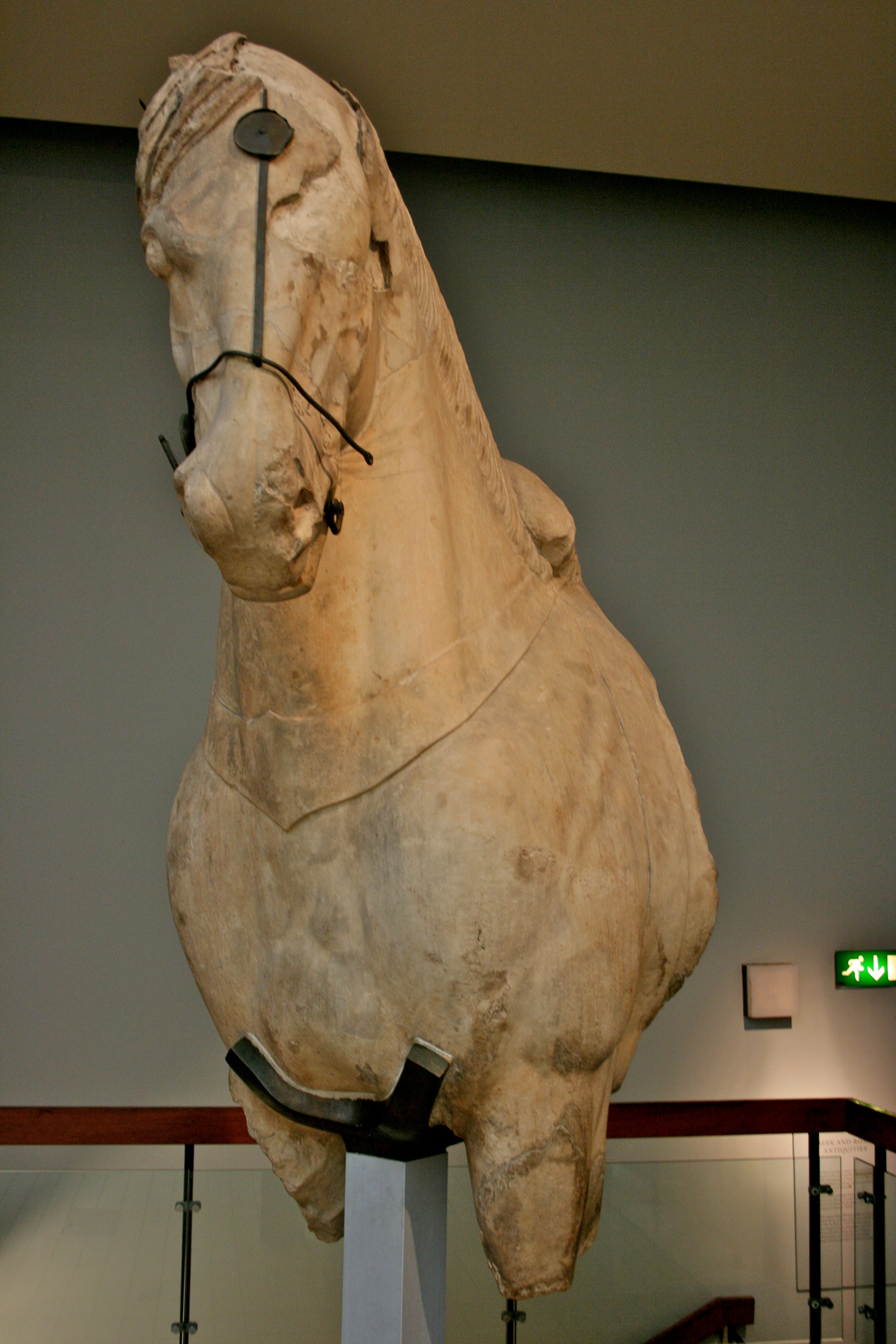 "1002. Forepart of a horse from the chariot-group surmounting the Mausoleum. Marble. About 350 BC." In the British Museum.